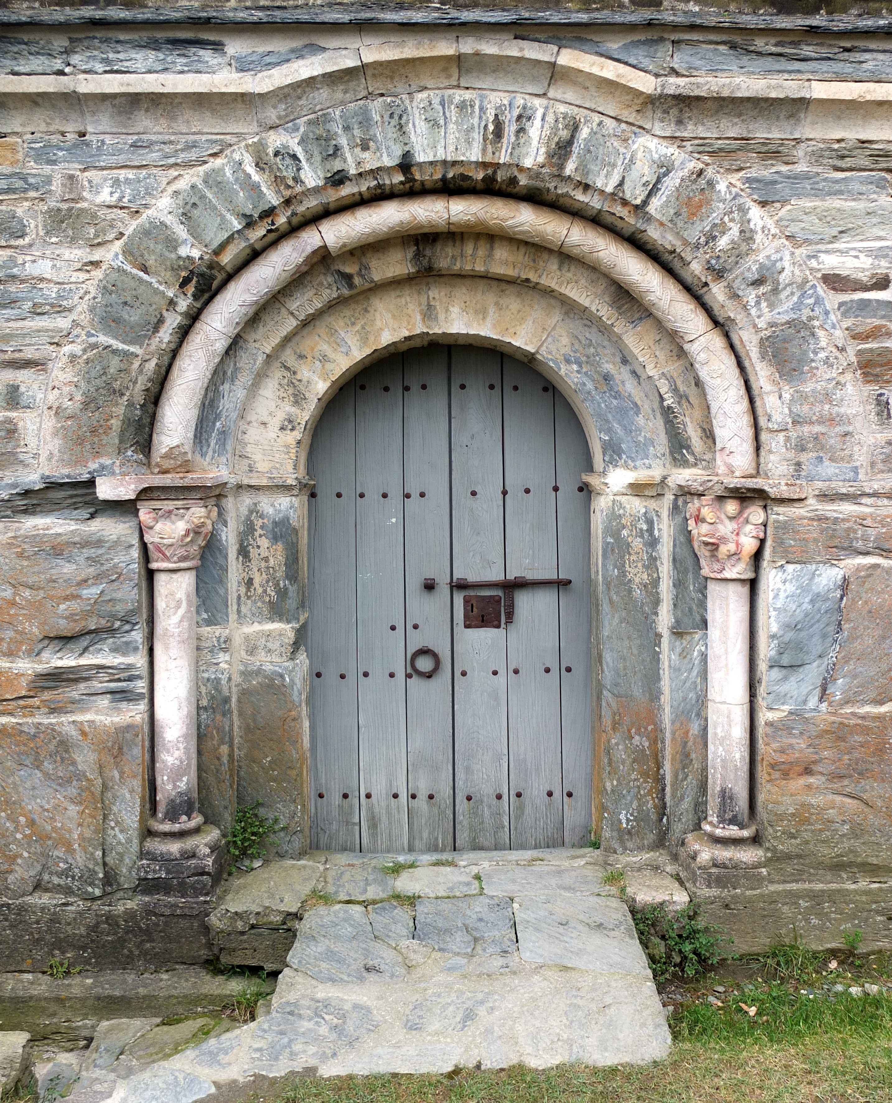 North portal of Serrabone Abbey, Boule d'Amont, France. Ministère de la Culture (France): Base Mémoire: MHR91_20136600052